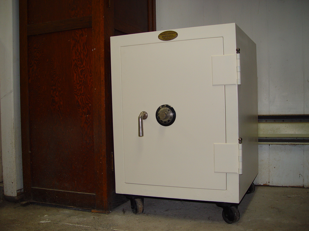 Photography taken by a Canadian jeweller